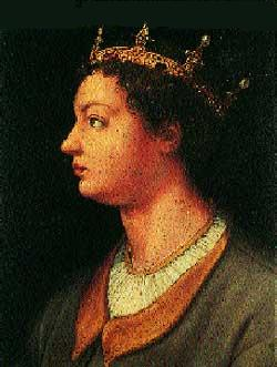 Ladislas of Naples